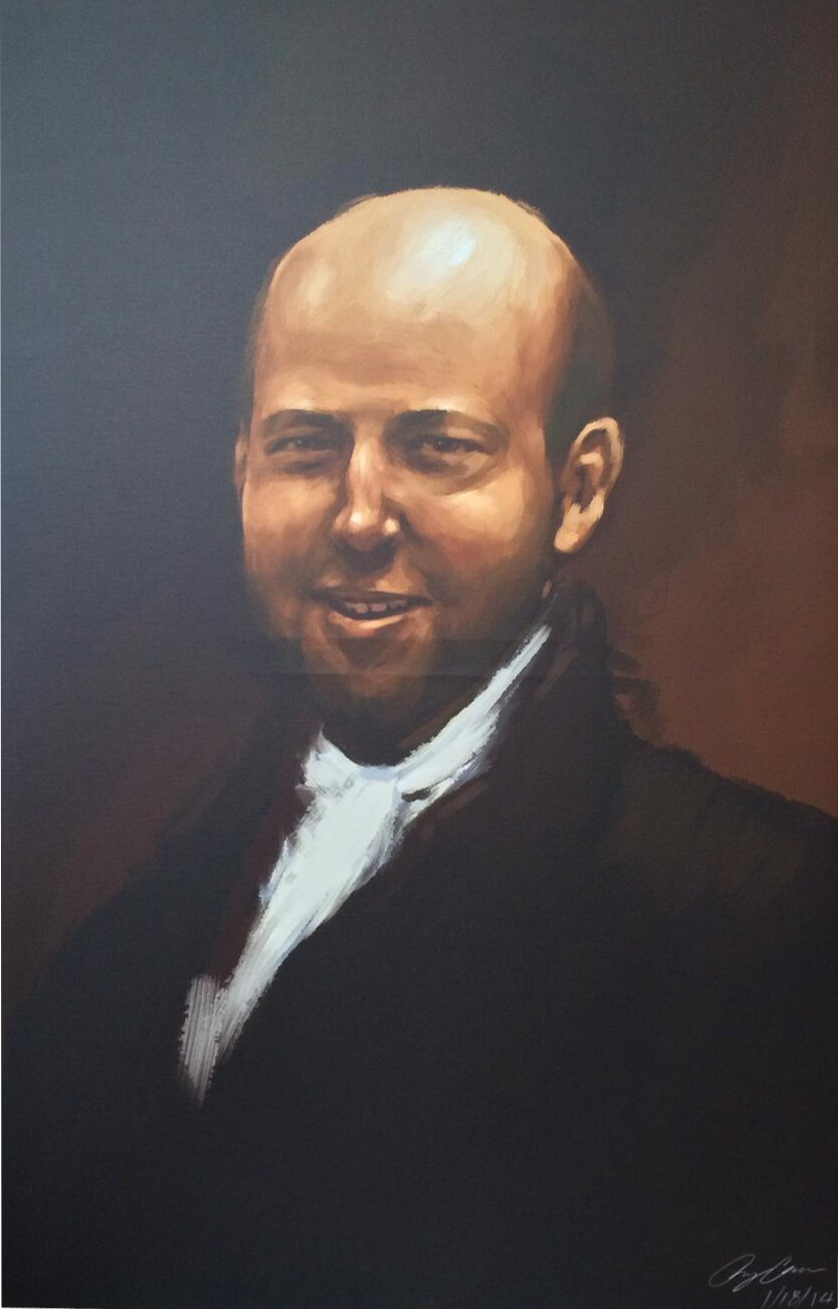 Portrait by Ray Chen, 1/18/2014